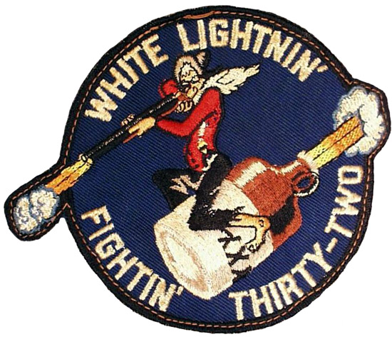 VF-32 vintage insignia.